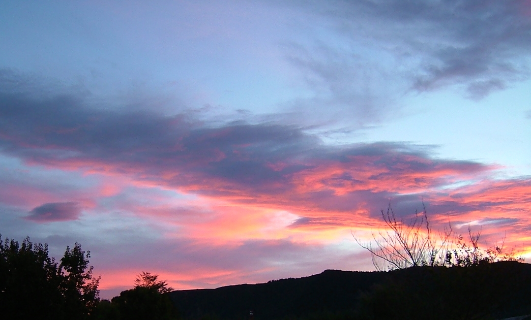 Photo of a sunset over the hills of Waimate, New Zealand. I grant full permission to use it under the terms of the GFDL.